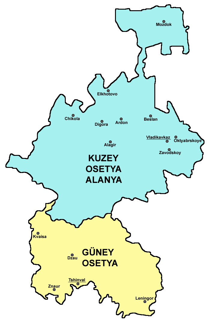 map of Ossetia (North Ossetia and South Ossetia) - Turkish language version.